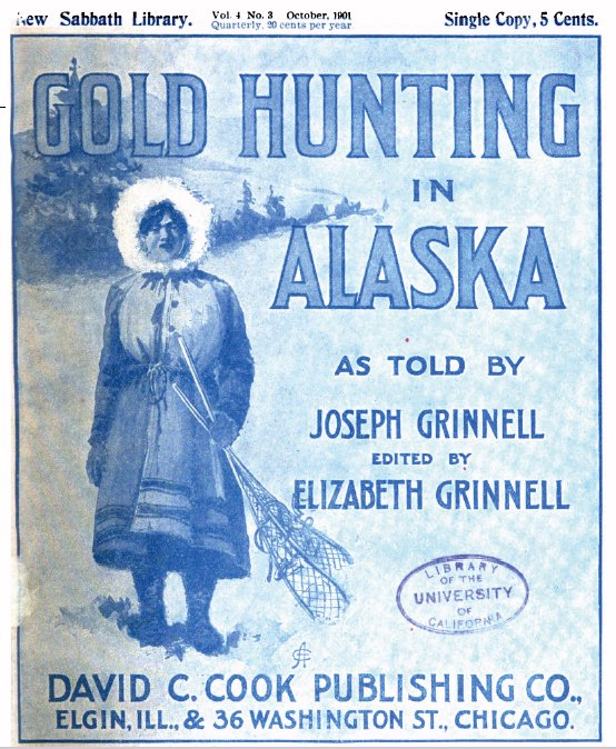 A compilation from letters written by Joseph Grinnell while in Alaska with the Long Beach and Alaska Mining and Trading Company.